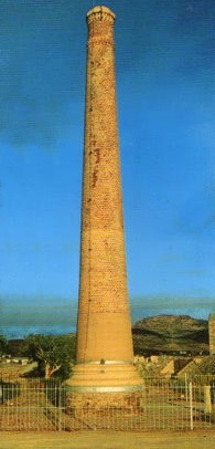 Ventilation shaft built by the Cape Copper Company in 1880 - now a national monument